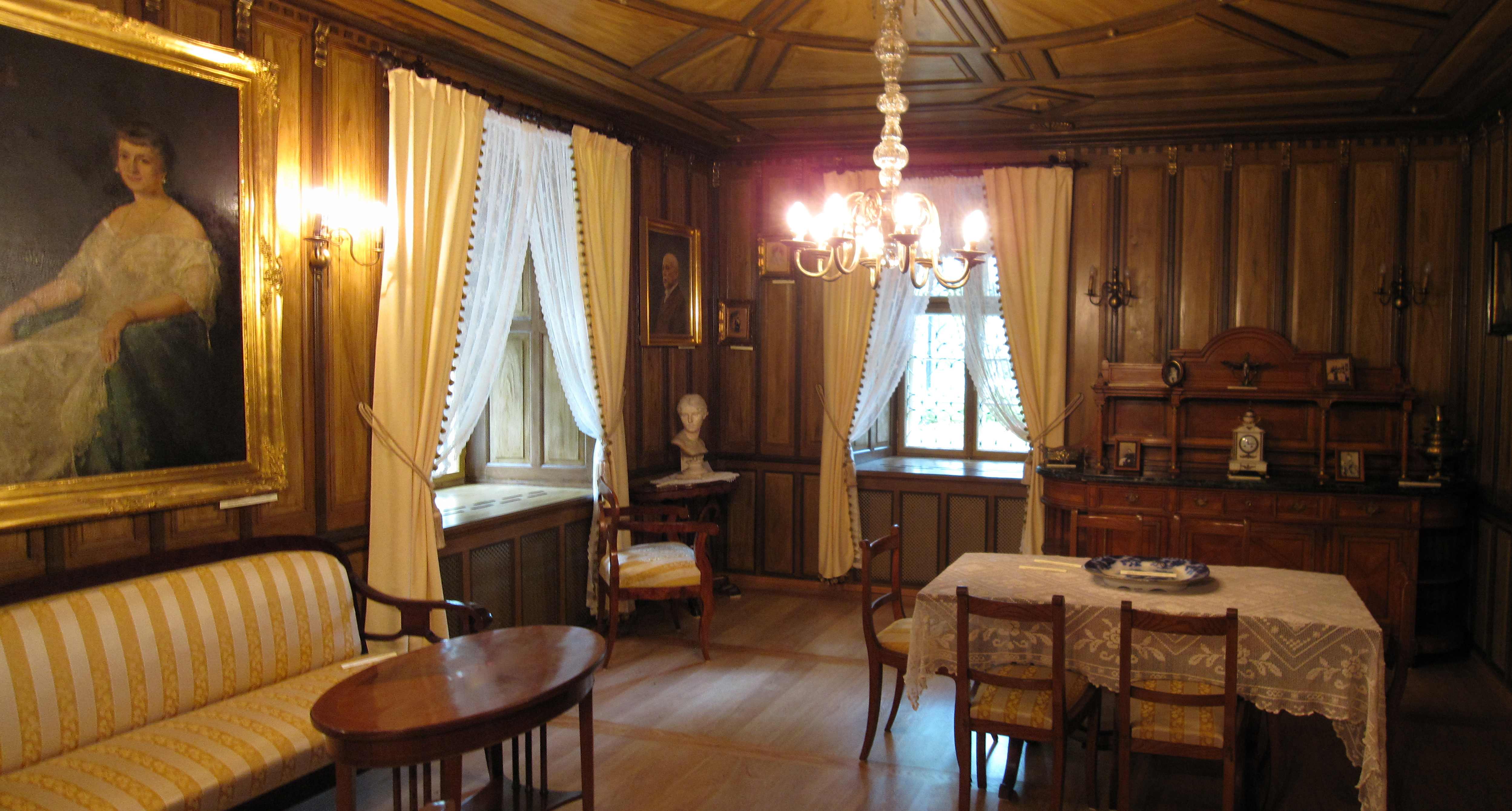 Biedermeier room in the Irena and Mieczysław Mazaraki Museum in Chrzanów